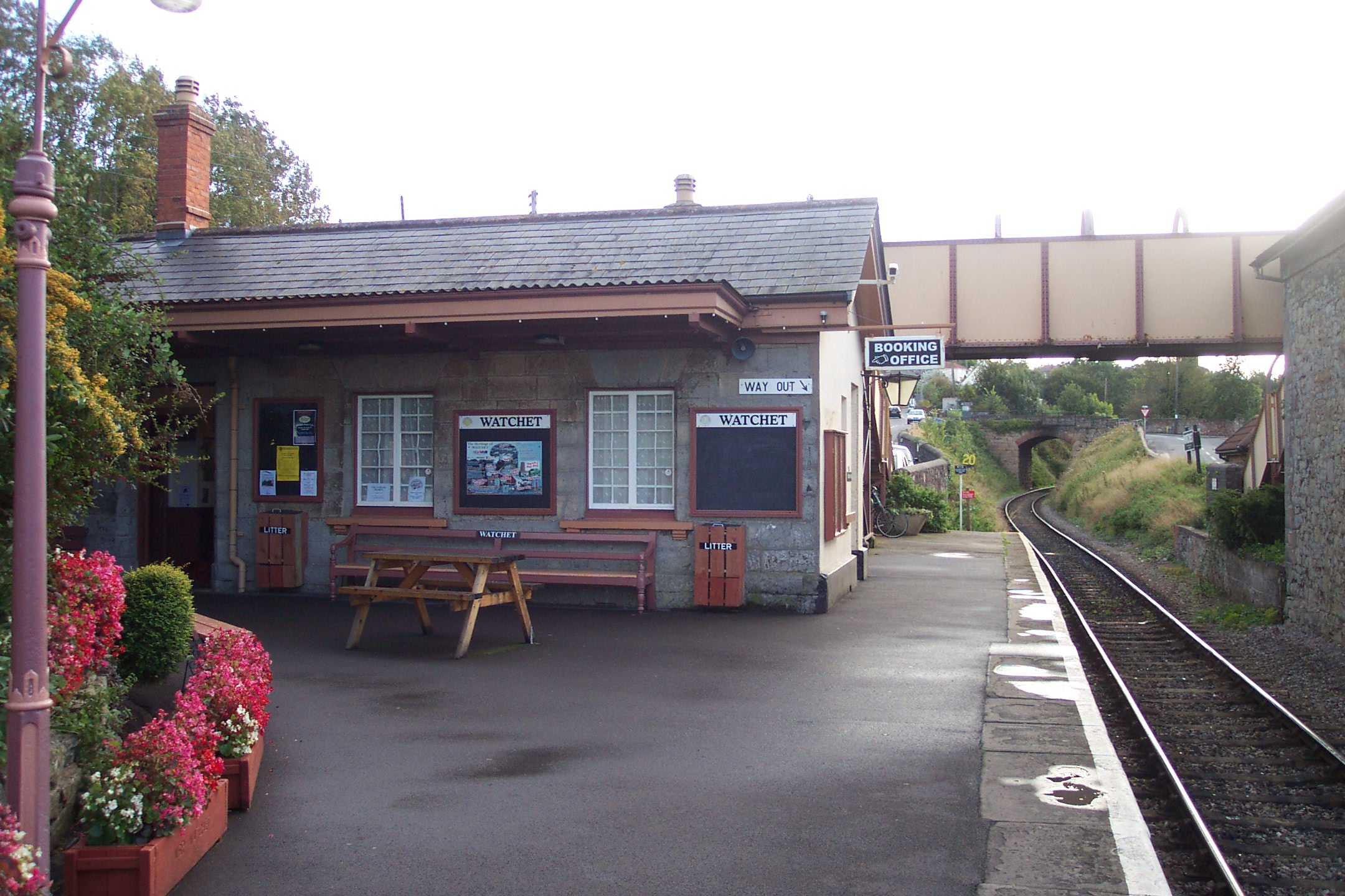 The station building at Watchet. The station building is at right angles to the track because this station was originally the terminus of the line; the line continuing under the footbridge towards Minehead is a later extension. The building to the right is the former goods shed, now the Watchet Boat Museum. For more information see the Wikipedia article Watchet railway station.